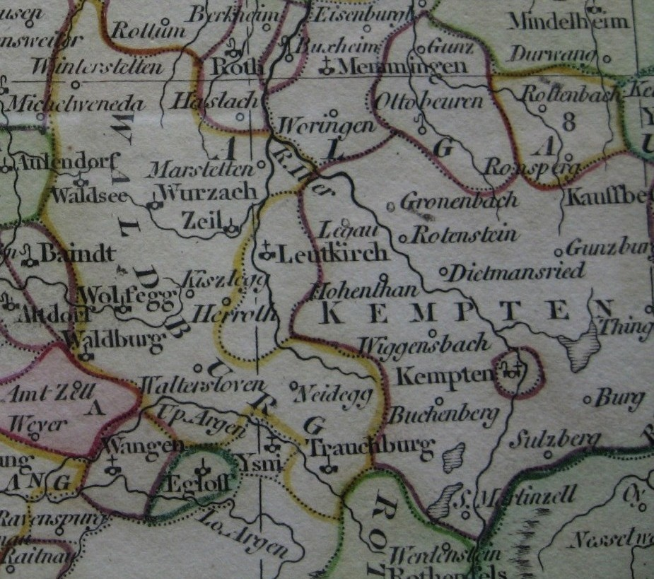 The Prince-Abbey of Kempten, the Free Imperial Cities of Kempten, Leutkirch, Wangen, Isny, Memmingen, the County of Waldburg and other states in a corner of southeastern Swabia. Cropped from a map of Swabia published by R. Wilkinson (London) in 1802.